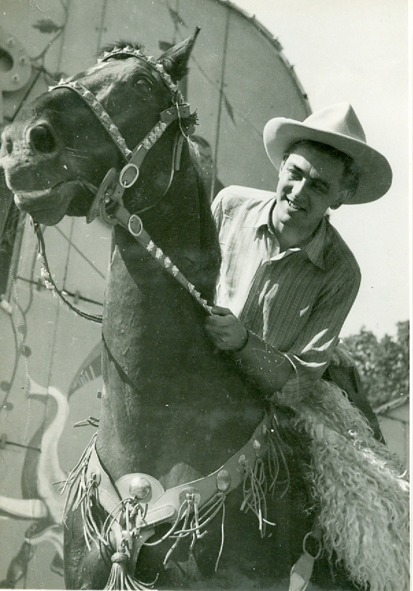 Trolle Rhodin riding a horse